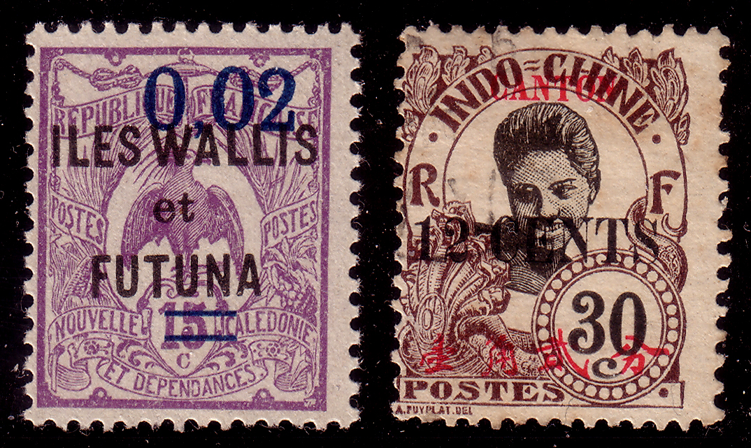 Overprinted postage stamps of French colonies, Canton over Indochina, Wallis and Futuna over New Caledonia